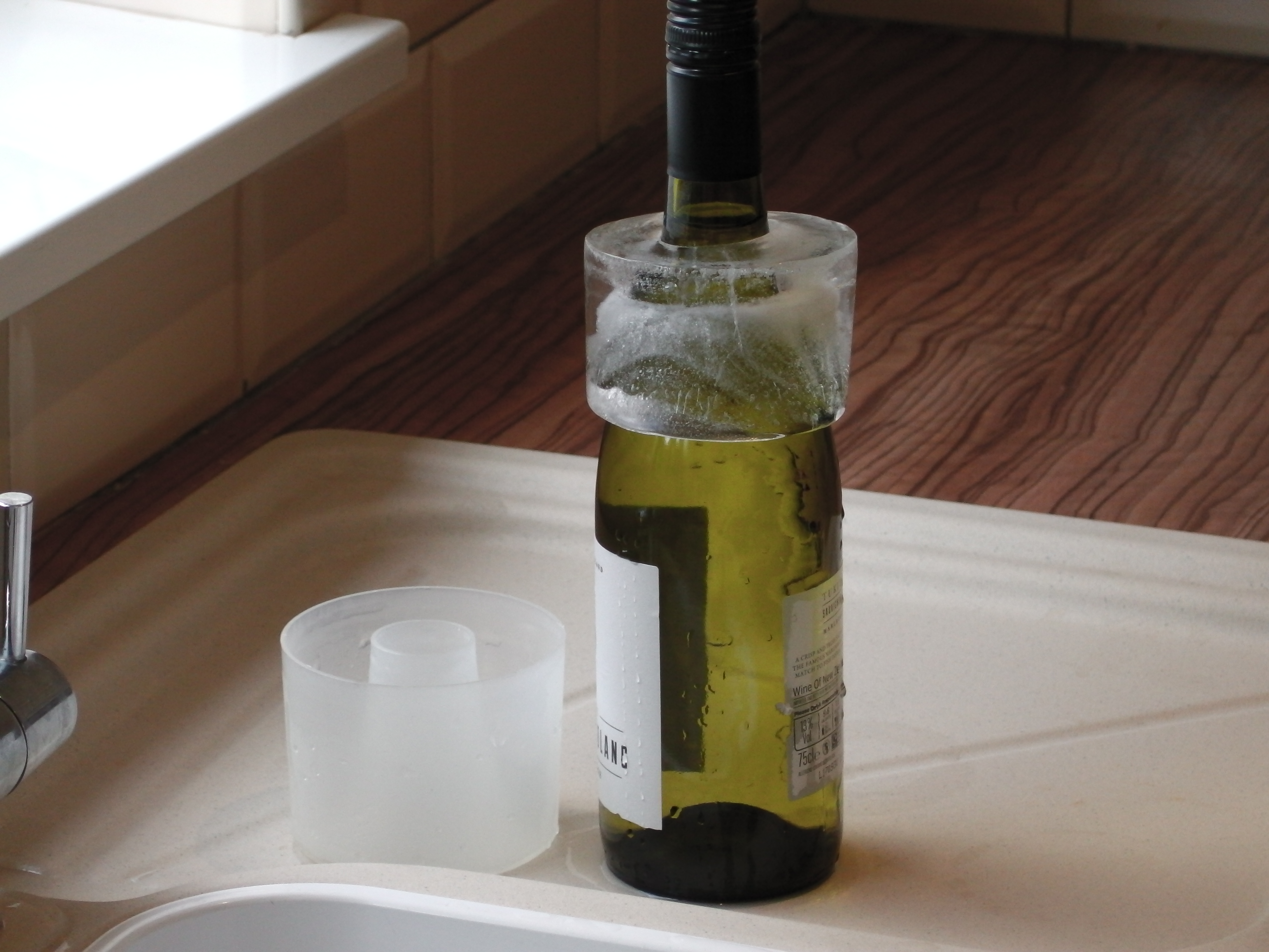 A shaped mould for forming an ice ring having an inside curvature which matches the curvature of a the neck of a bottle of wine. The ice ring sits on the neck of the bottle and cools the contents. Convection causes cool wine to sink within the bottle drawing warm wine up to the cold neck. Continuous flow within bottle ensures even cooling of the wine and achieves a consistent temperature. Severn ice ring wine cooler.